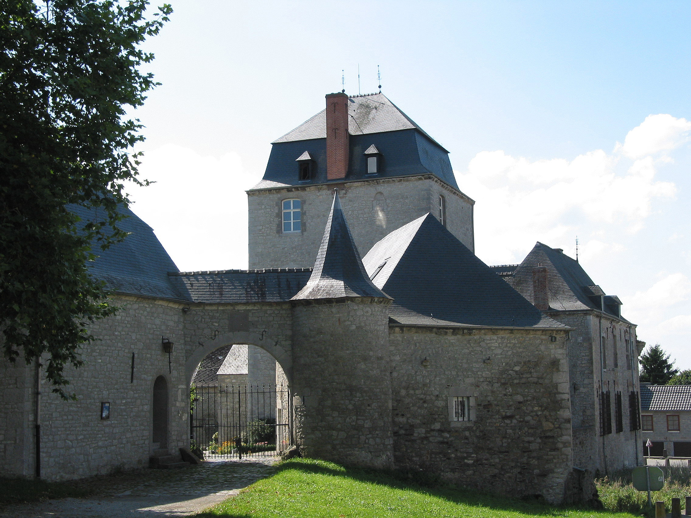 Roly (Belgium), the Roly Lords farm-castle (XIV/XVIth centuries).